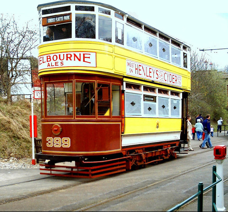 A vintage British tram. Until the 1950s, trams like this were a common sight in most British cities. This one entered service in 1925 and used to run in Leeds. Seen here at the National Tramway Museum in Derbyshire England. Photo by G-Man April 2004. (another image)